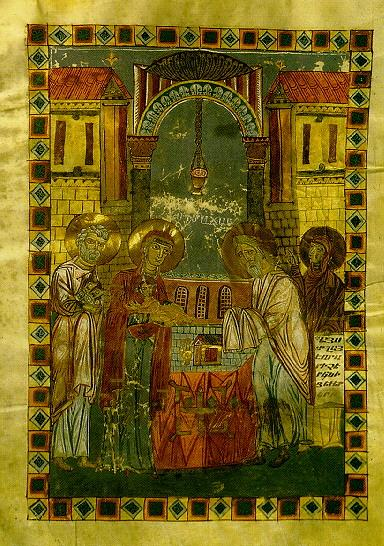 The Presentation in the Temple, miniature from the 11th-century Mugni Gospels.